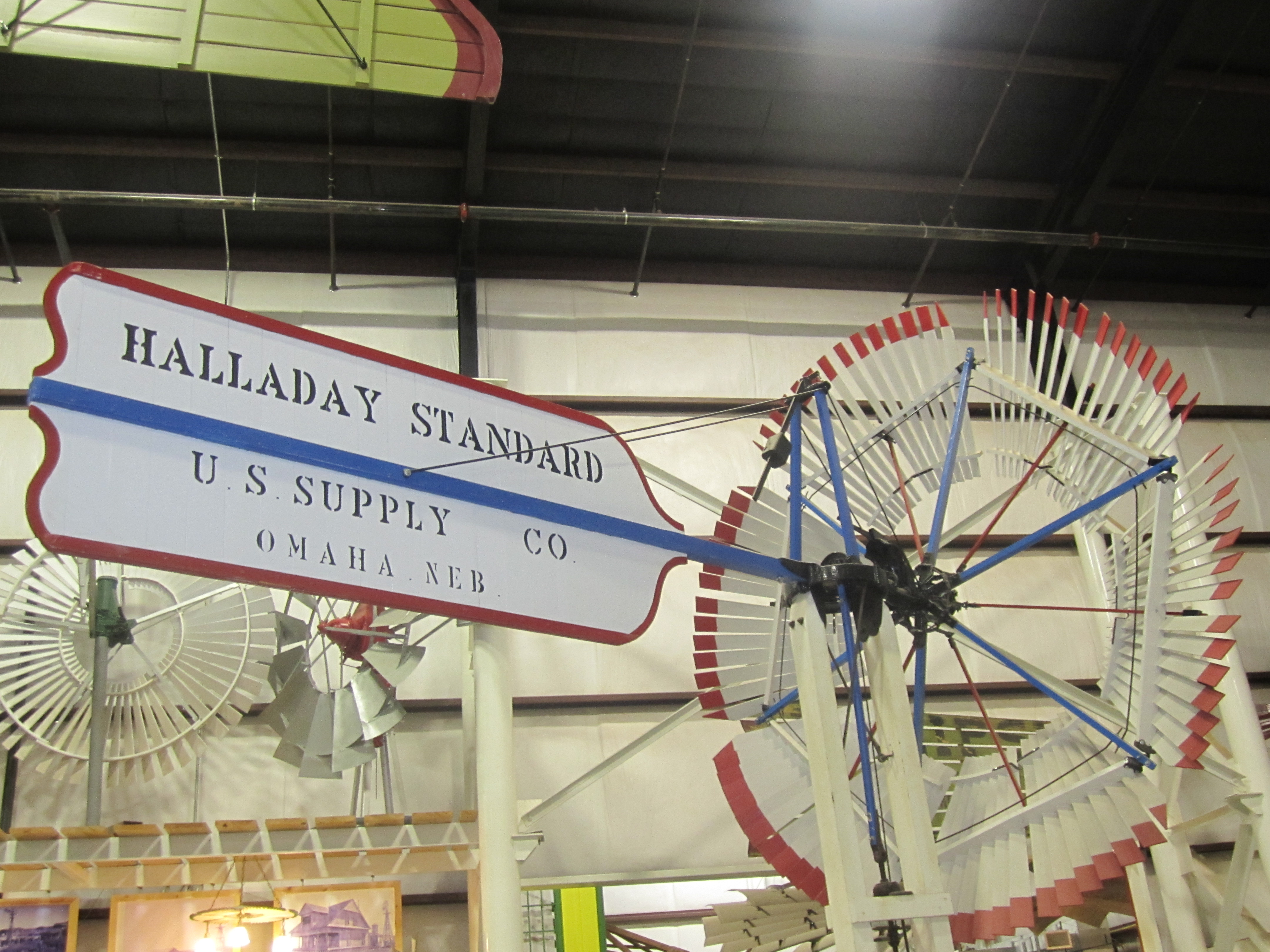 I took photo with Canon camera in Lubbock, TX.